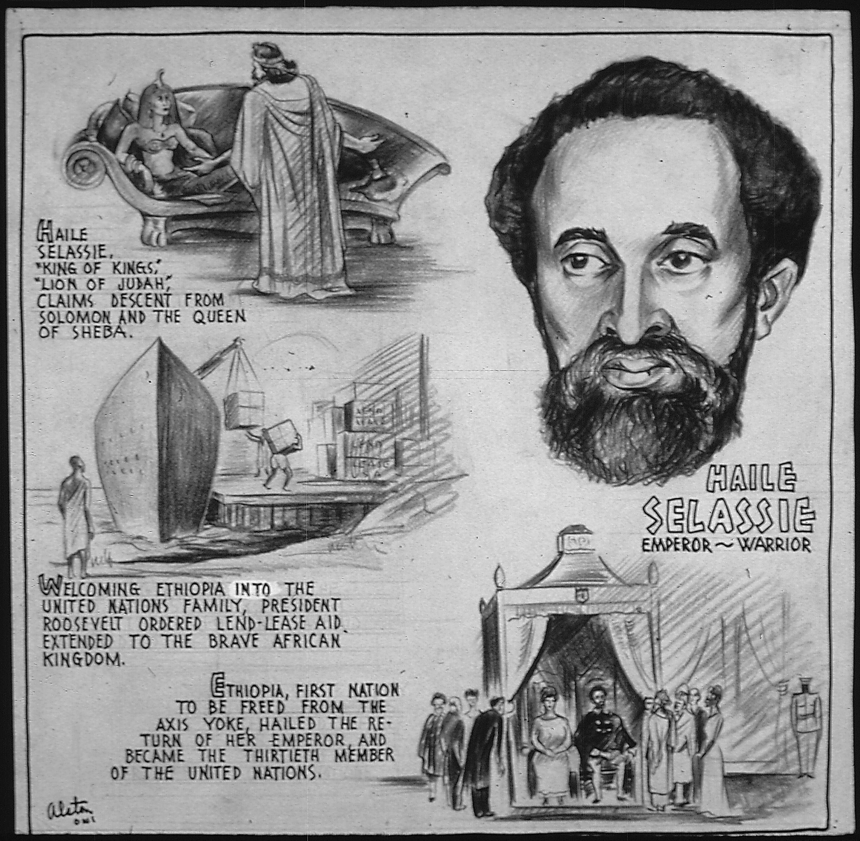 Scope and content: Haile Selassie - with biographical paragraphs.